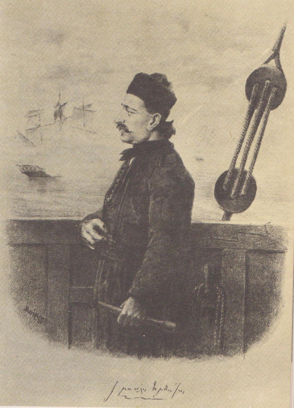 Captain Emmanuel Tombazis(1784-1831),Lithography by Boehringer, circa 1825, National Historical museum of Greece.